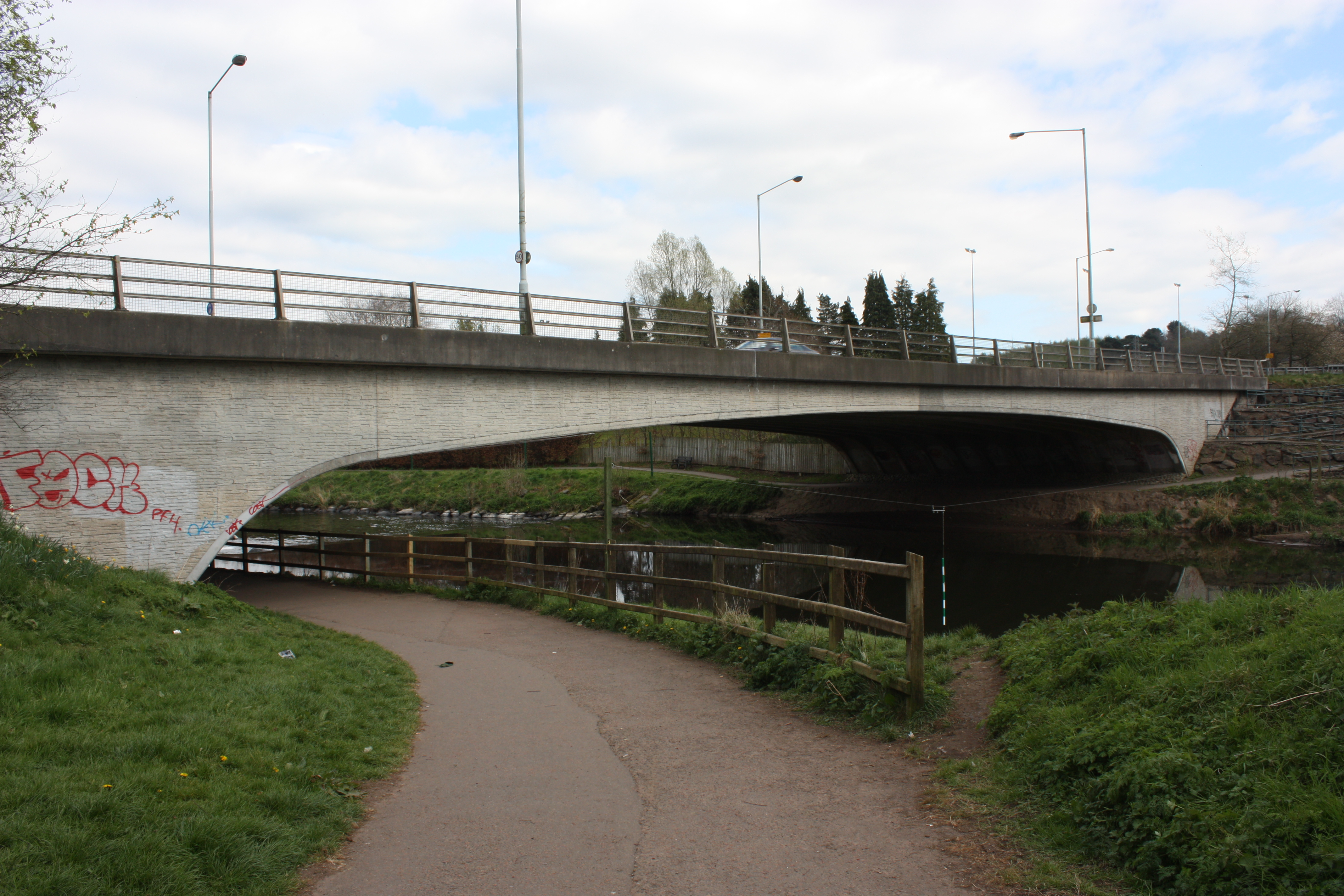 Current road bridge, Shaw's Bridge, Belfast, Northern Ireland, April 2012